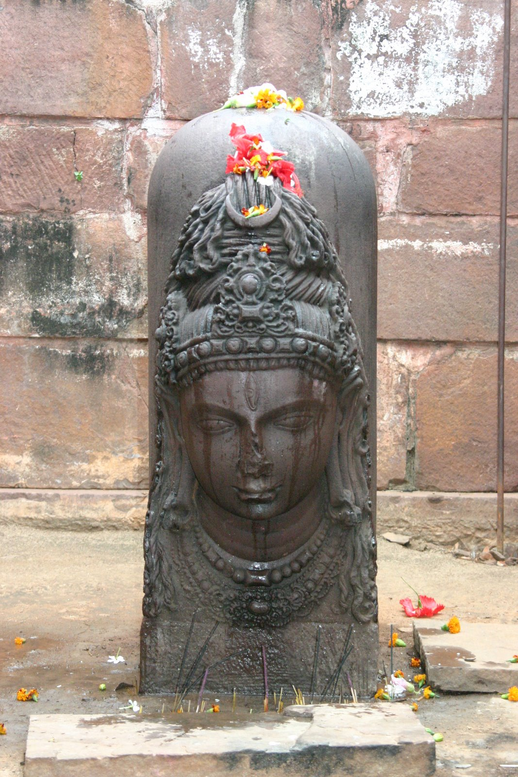 ~ Shiva Ekamukhalinga ~ Gupta dynasty Shiva Mandir, Bhumara, MP